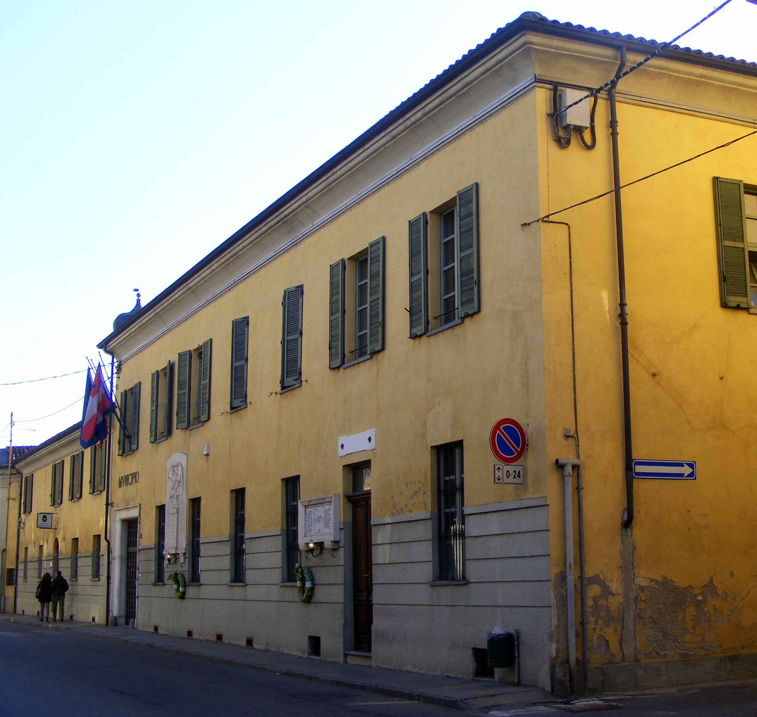 Villastellone (TO, Italy): town hall